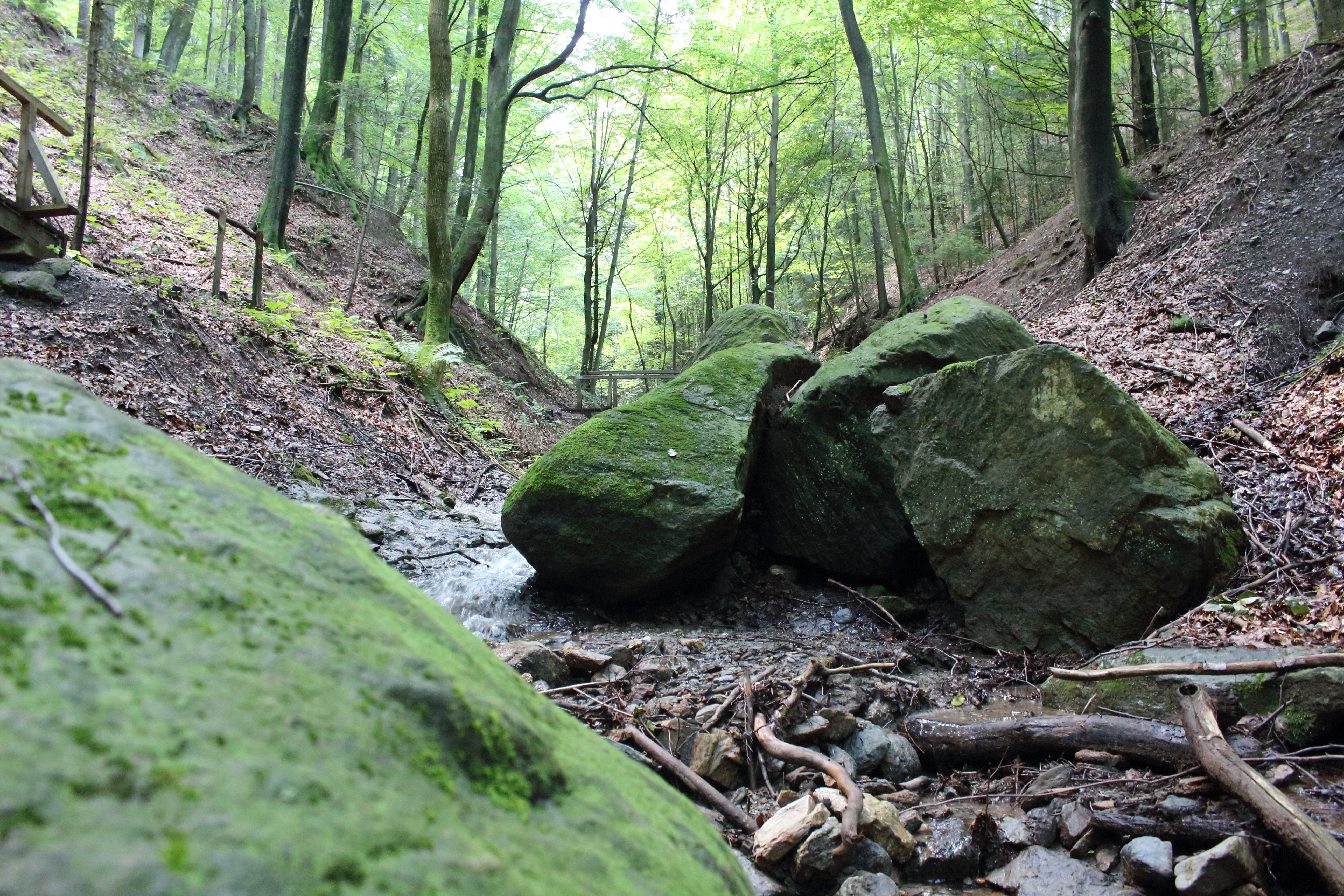 Altenbachklamm is a ravine near Oberhaag, Styria/Austria